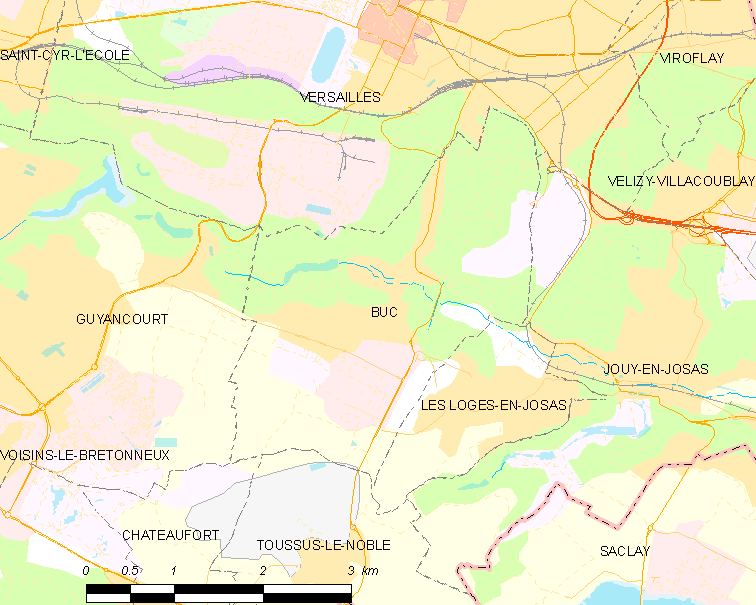 Map of French municipality Buc